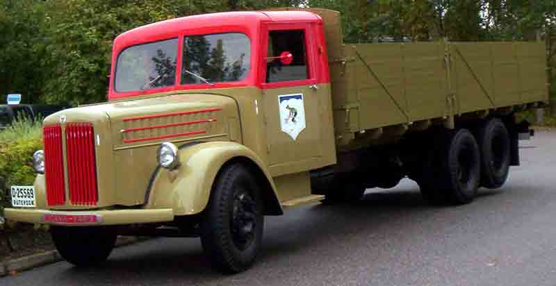 Scania-Vabis LS23 Truck 1948